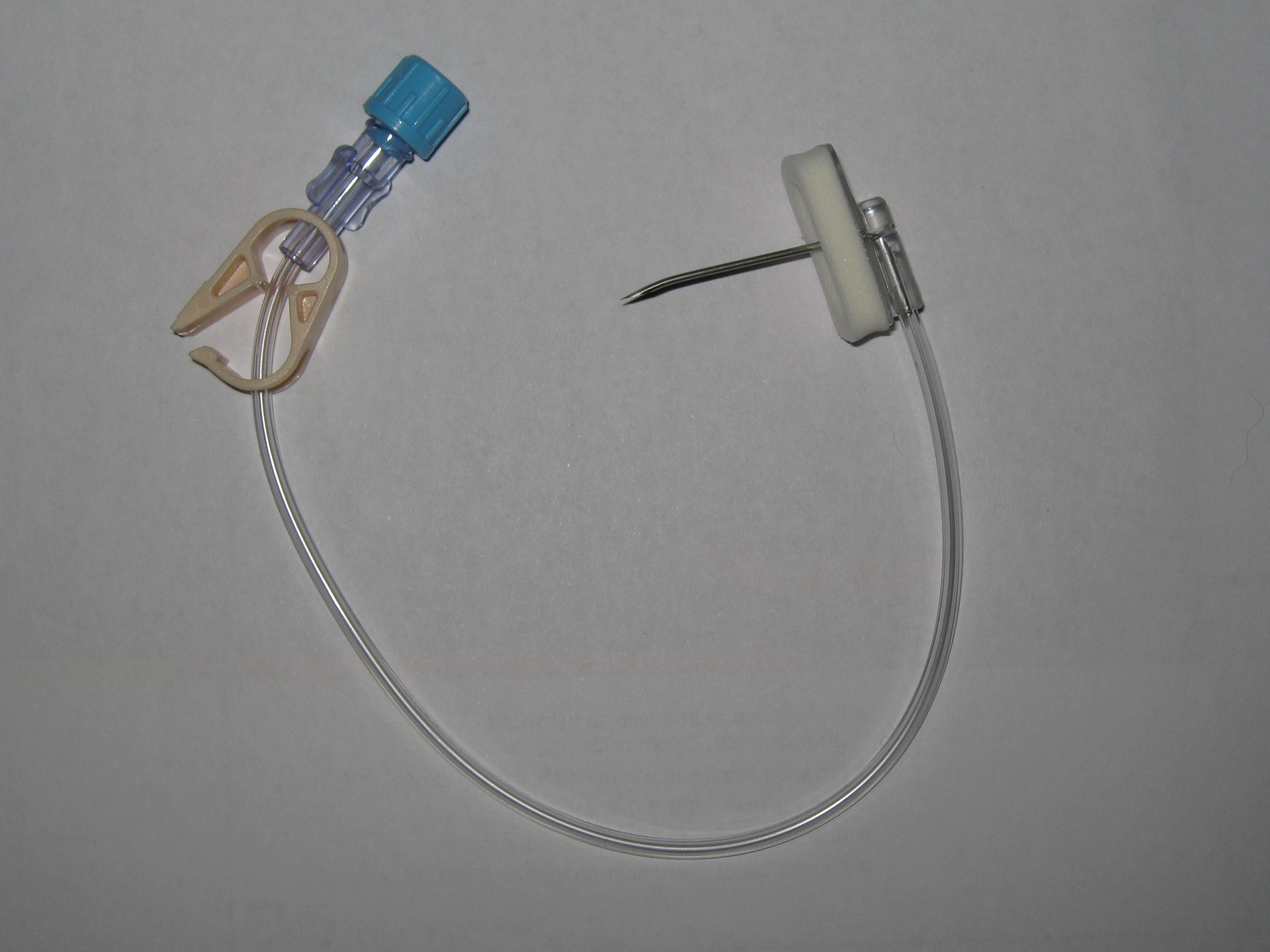 Gripperneedle